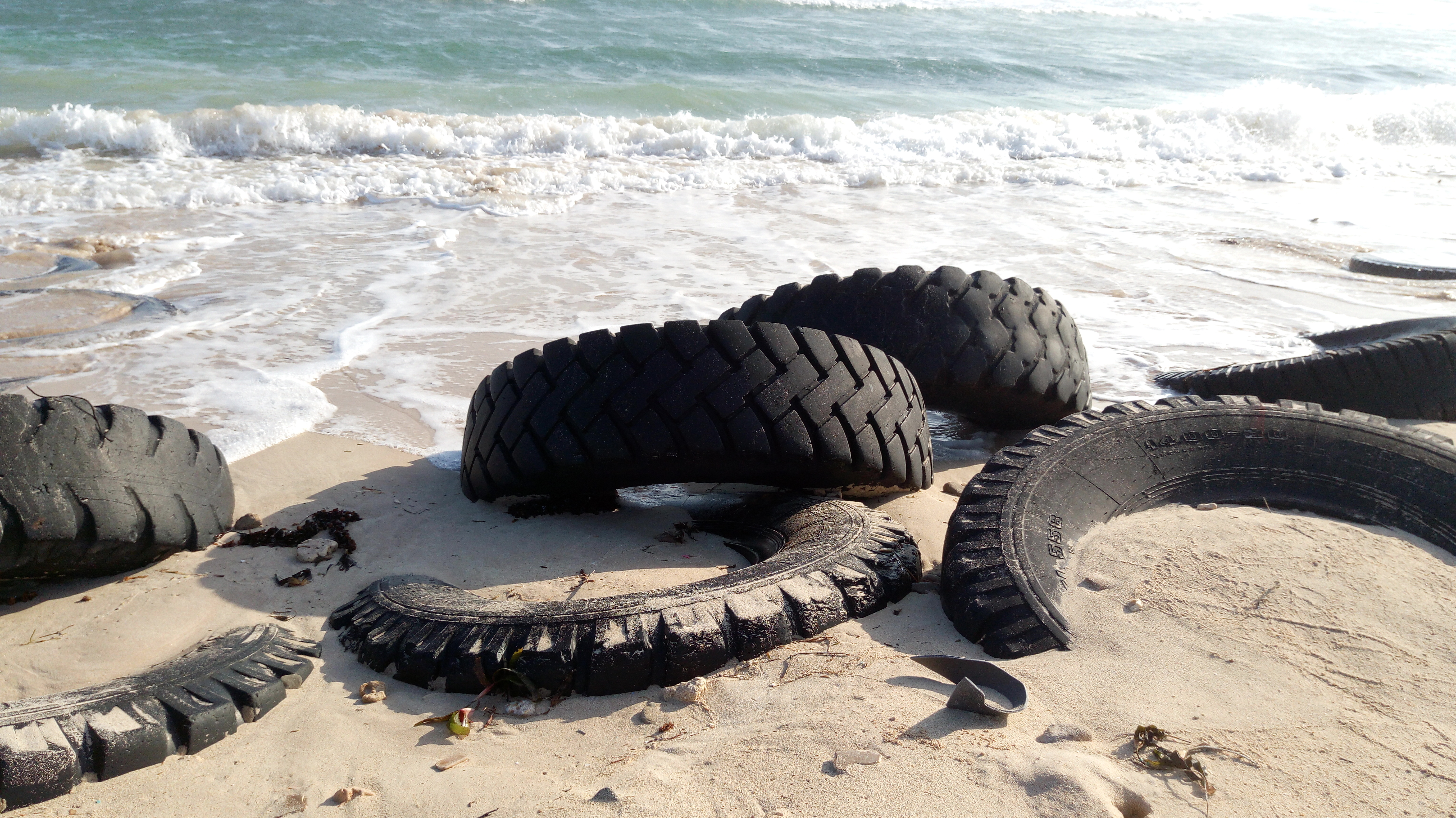 I took this photo at Somalais coastline in Mogadishu.